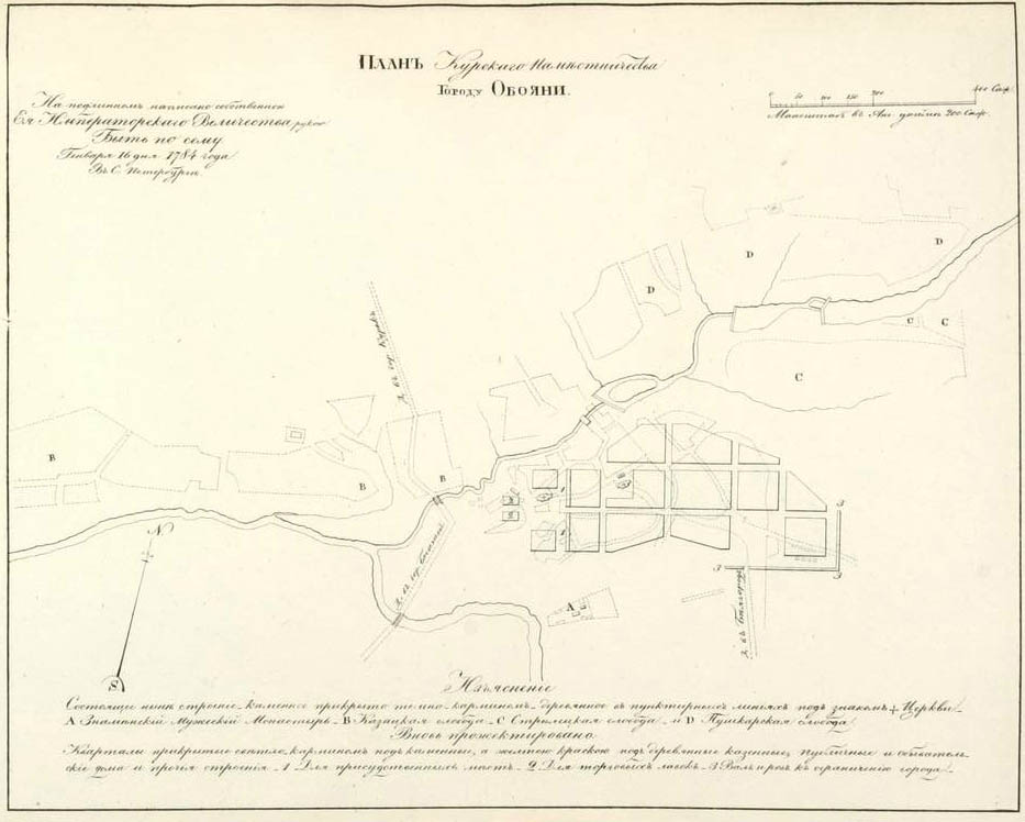 Oboyan city plan in 1839